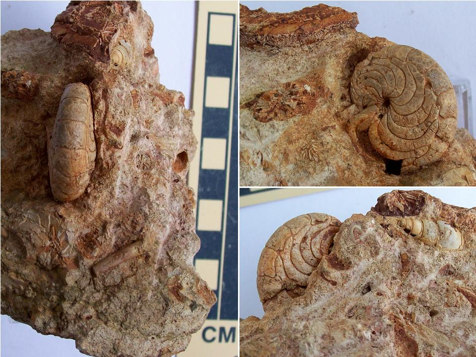 fossil specimen of Aturia aturi (Basterot), an extinct nautiloid, associated with gasteropoda and corals (fore-reef to reef-slope facies). From Miocene sediments of Puglia (southern Italy). The specimen is an internal mold; the complex, sinuous sutural pattern and the narrow and deep umbilicus are clearly visible